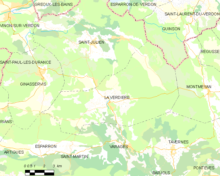 Map of French municipality La Verdière